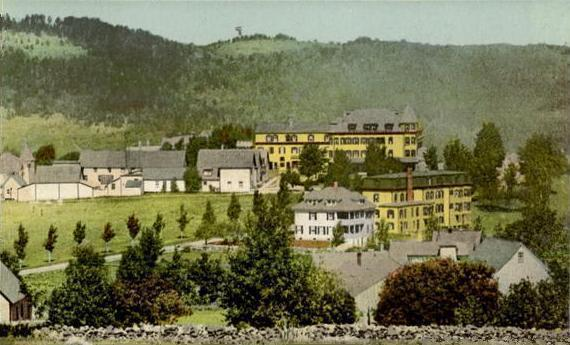 The Sunset Hill House, Sugar Hill, NH; from a c. 1910 postcard.